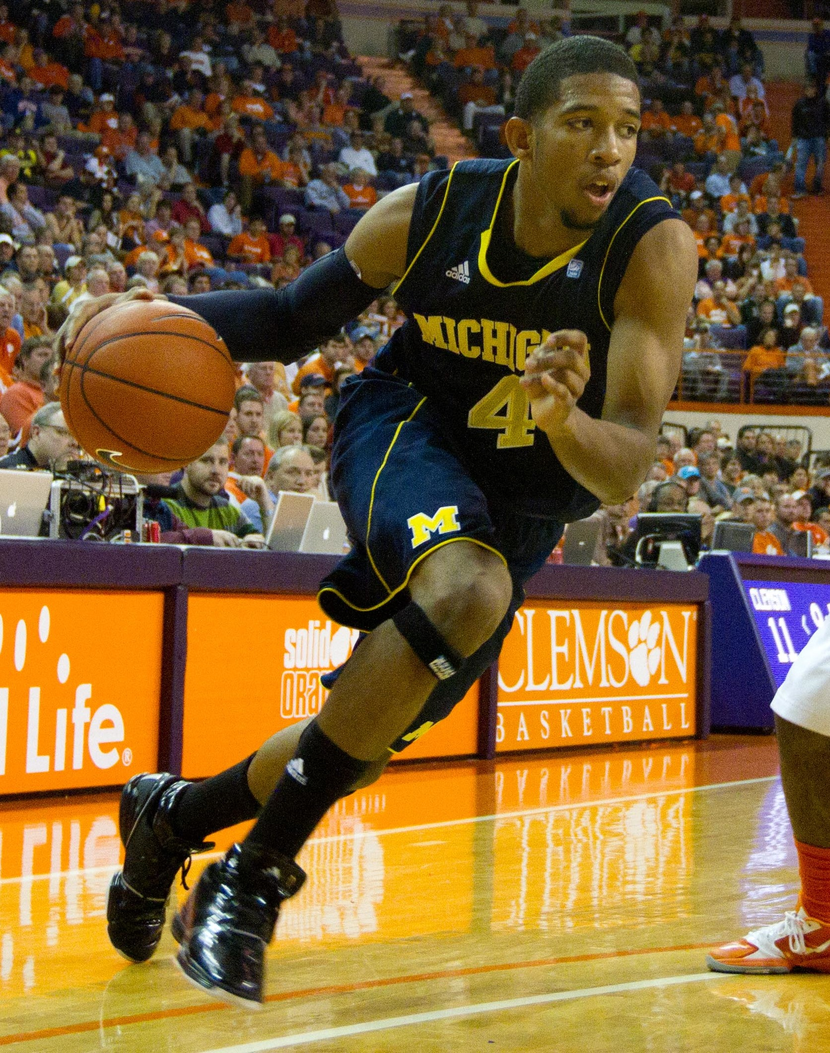 Darius Morris drives on Cory Stanton